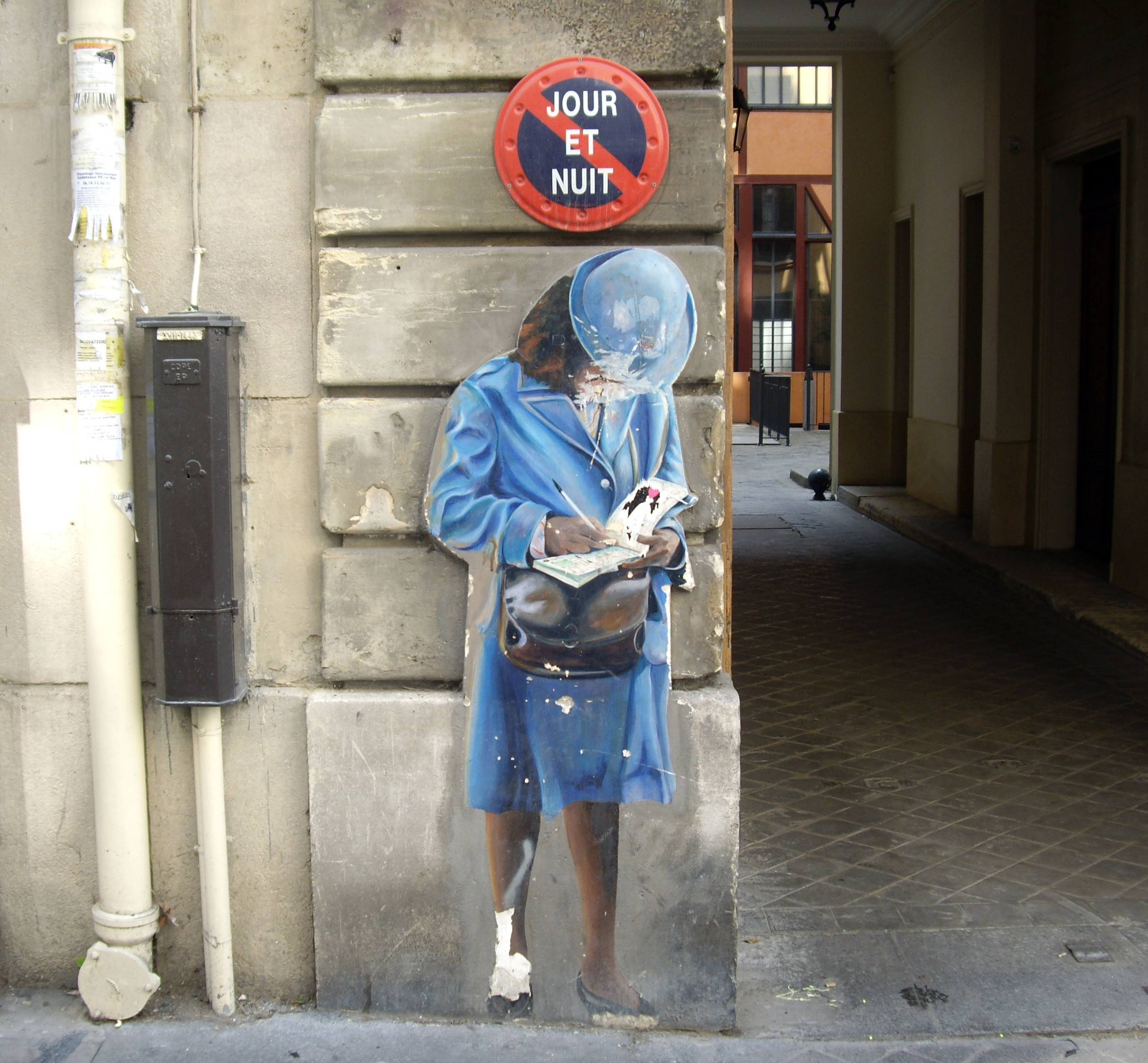 Effigy of a female parking attendant pasted on a wall beneath a no parking sign in Rue Bayen, Paris 17e.